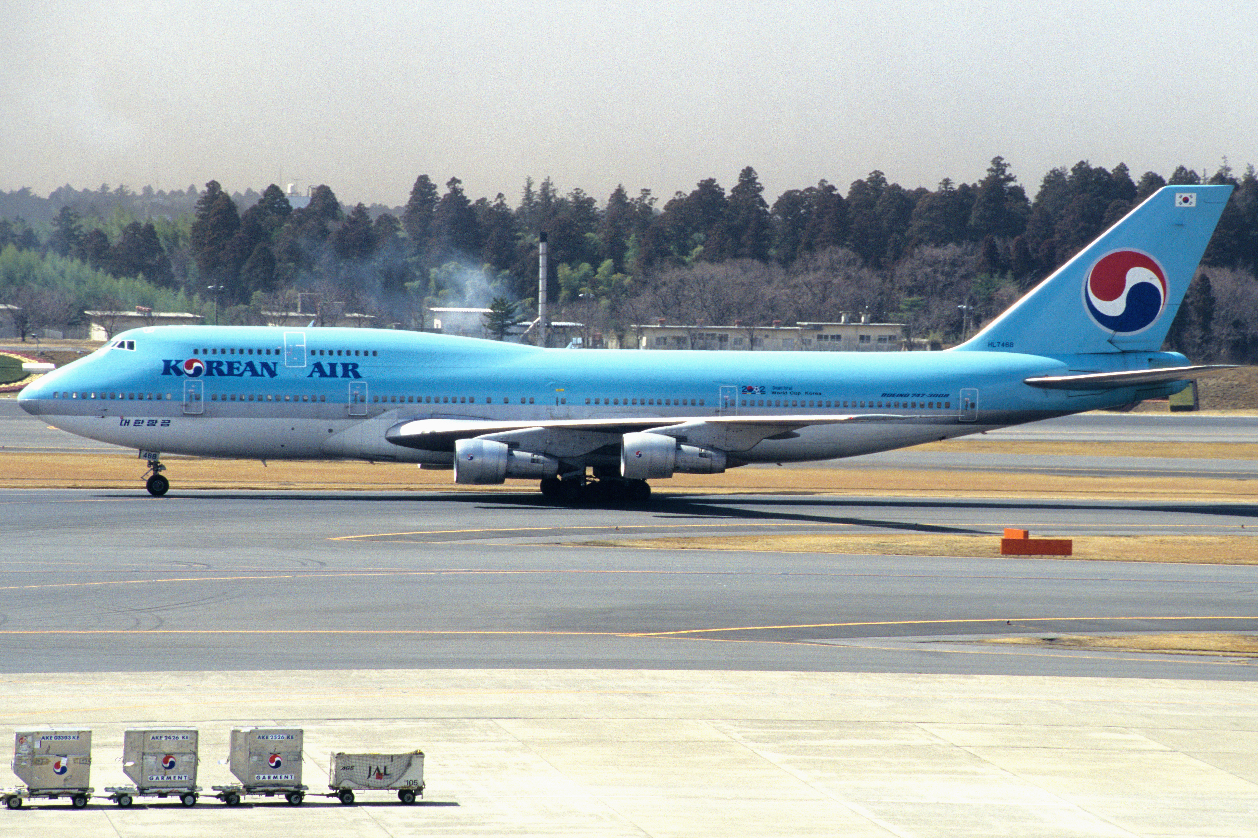 Korean Air Boeing 747-3B5 HL7468/22487/605